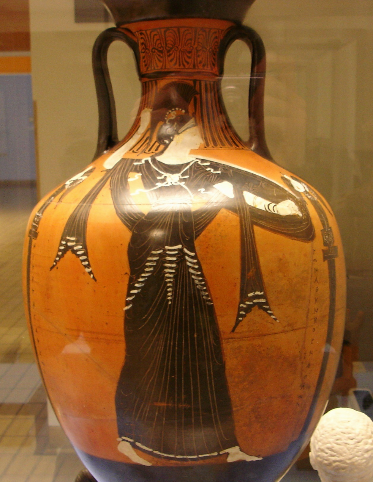 The goddess Athena on a panathenaic prize amphora. Attic black-figured amphora, 332–331 BC (made in Athens during the archonship of Niketes). From Capua, Italy.